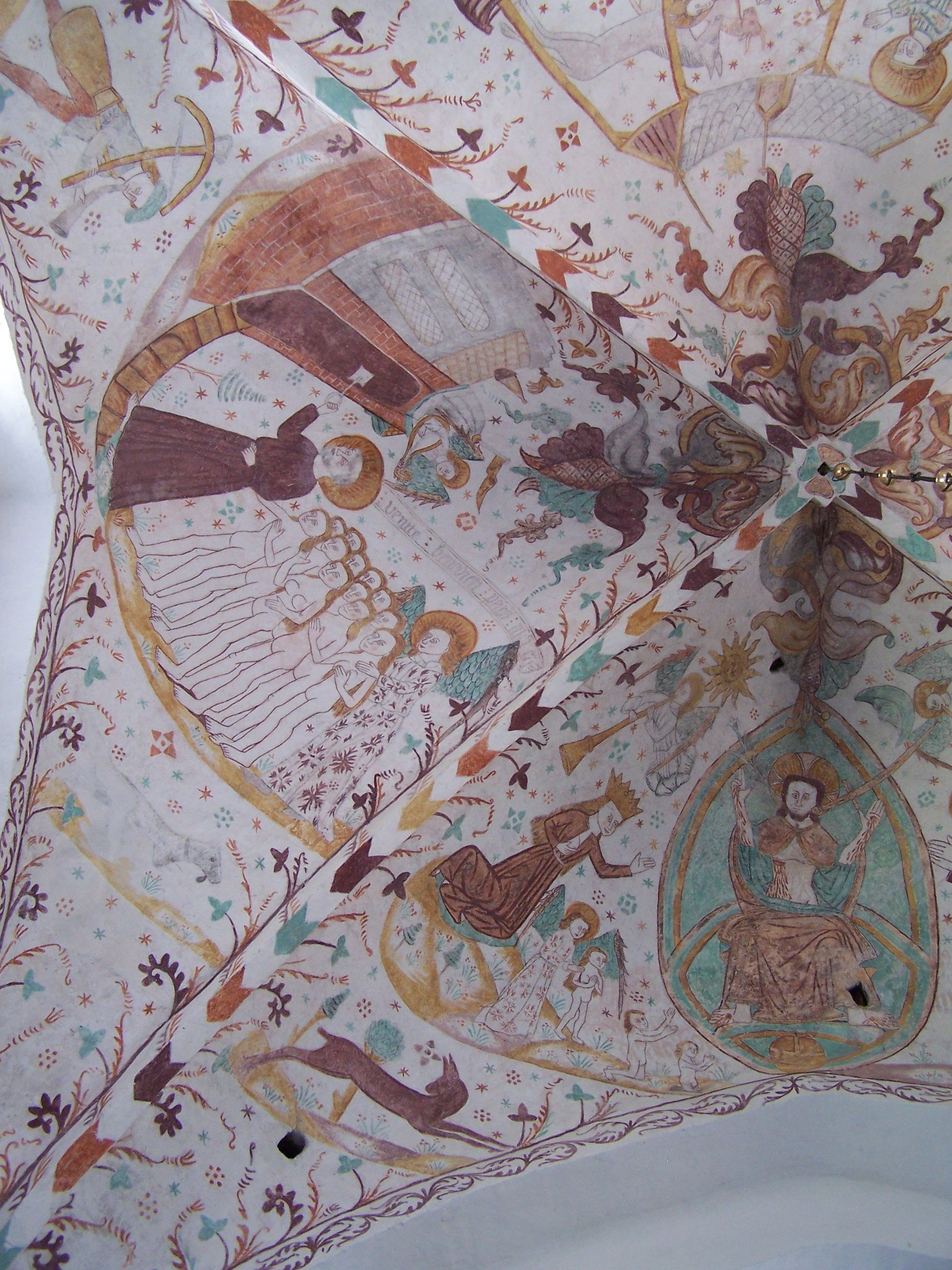 Elmelunde Church Frescos in ceiling